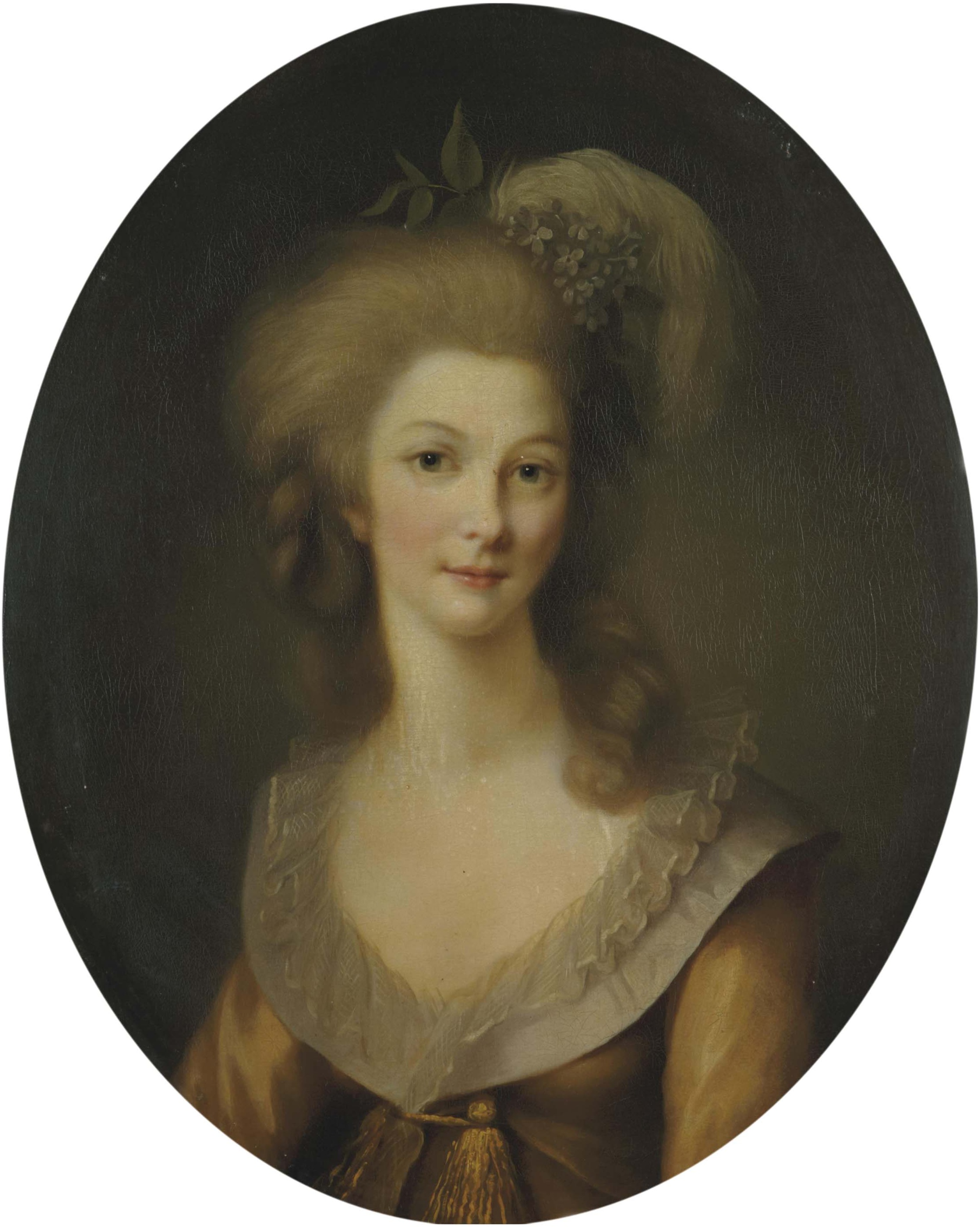 Portrait of the Princess de Lamballe (1749-1792)